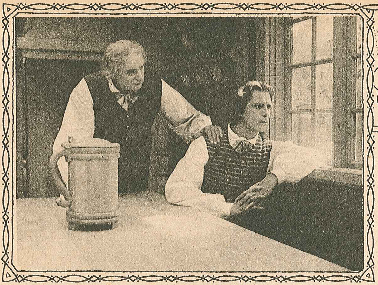 Norwegian actor Egil Eide as Saemund and Swedish actor Lars Hanson as Thorbjörn in the 1919 Swedish film Synnöve Solbakken, directed by John W. Brunius and based on a story by Bjørnstjerne Bjørnson.